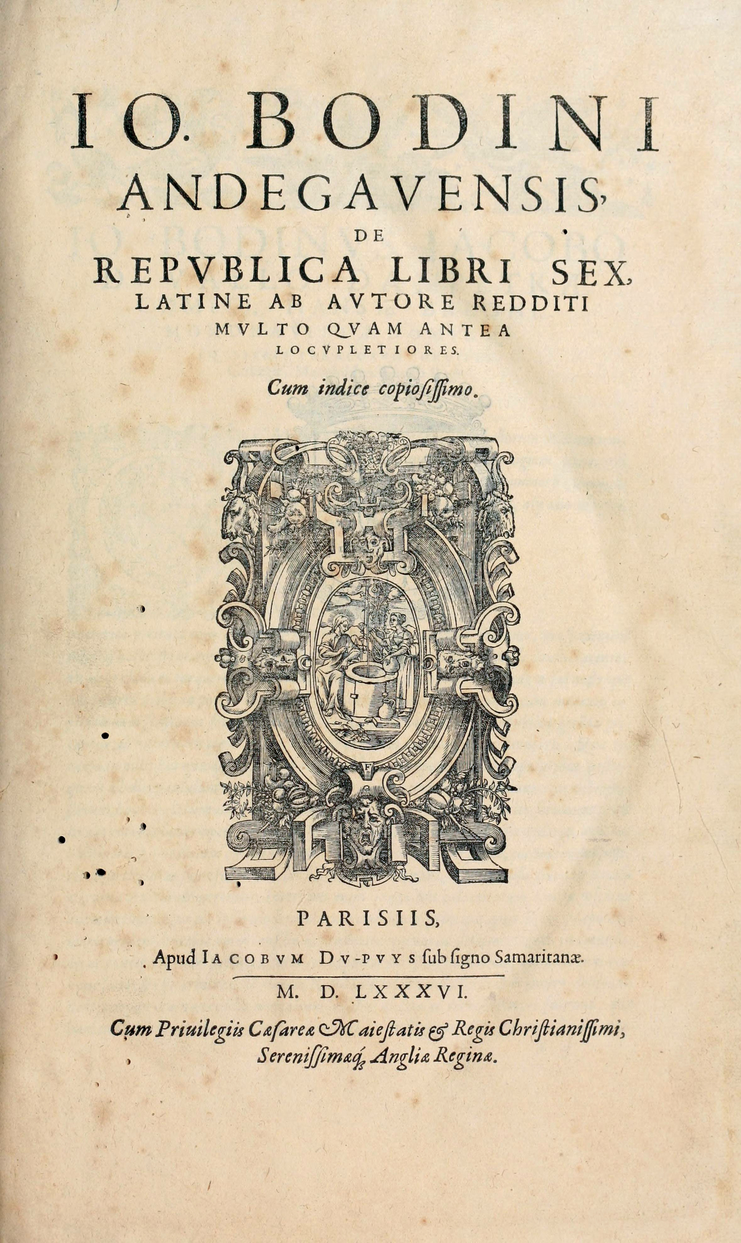 Io. Bodini Andegavensis De republica libri sex. Parisiis : Apud Iacobum Du-Puys sub signo Samaritanae